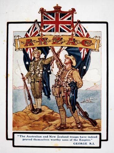 A New Zealand soldier stands on the left, with an Australian soldier on the right. They are holding the flags of their countries, with a Union Jack displayed above. A banner across the flags reads 'Australian and New Zealand Army Corps'. King George V is quoted 'The Australian and New Zealand troops have indeed proved themselves worthy sons of the Empire'.